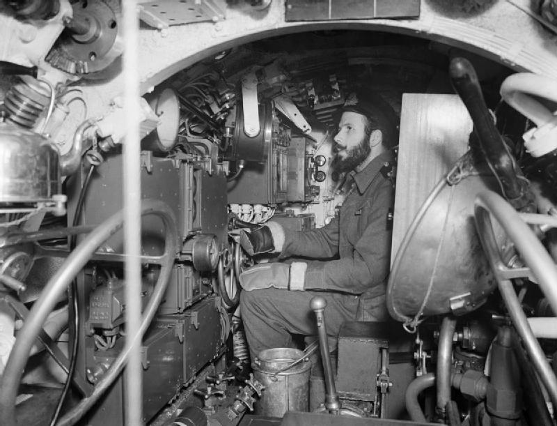 Sub Lieutenant K C J Robinson, RNVR, of Crosby, Liverpool, a Commanding Officer in an X-craft at the Hydroplane controls whilst sailing in Rothesay Bay.